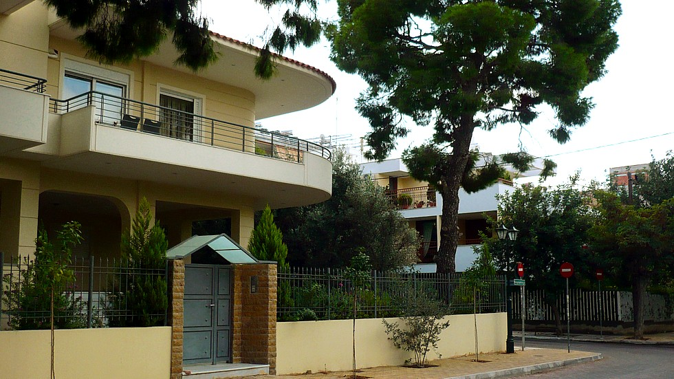 Ano Pefki Architecture